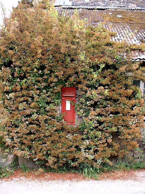 Postbox at Ruthernbridge, Cornwall. A rural postbox set into the side an old stone building in the village of Ruthernbridge, near Bodmin, Cornwall.